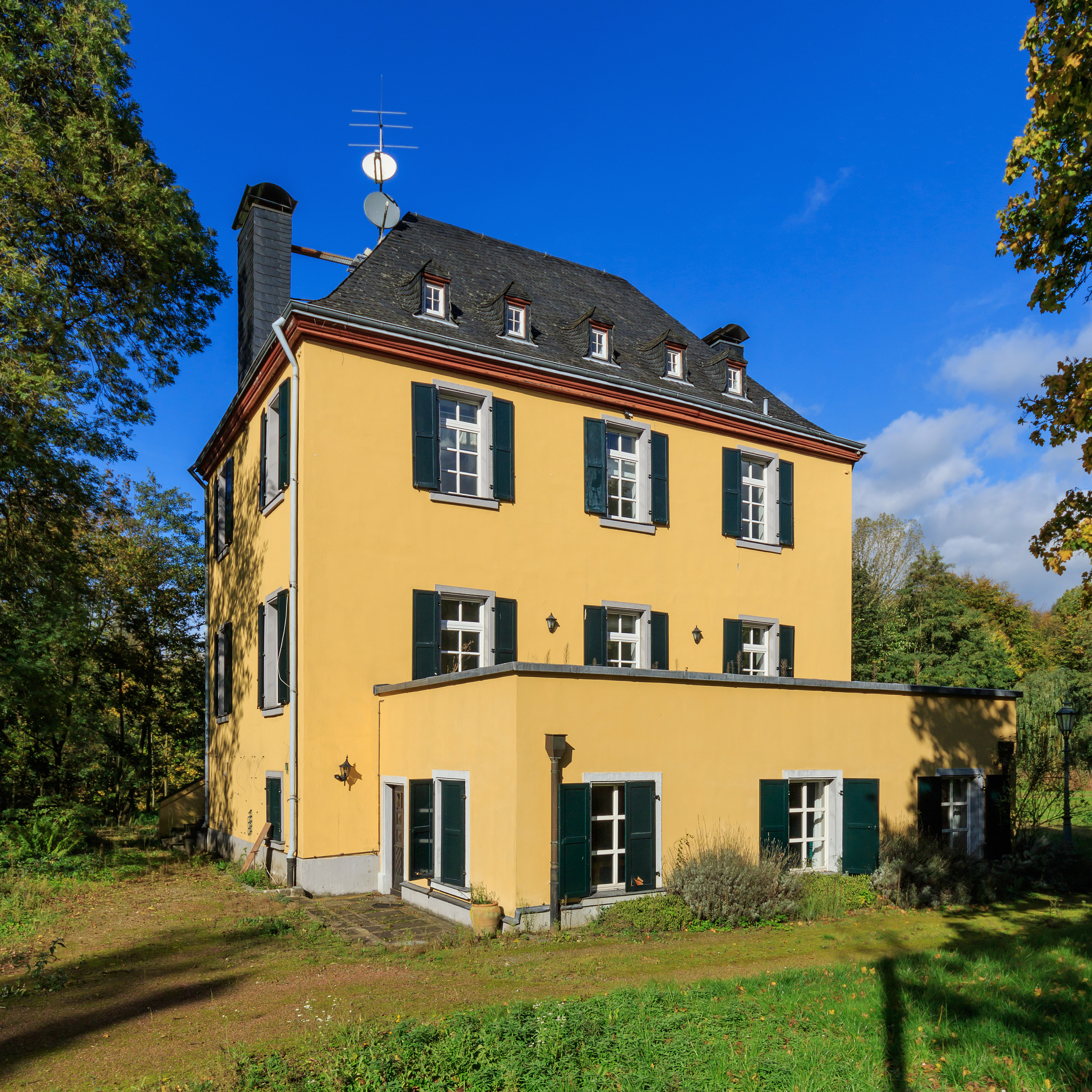 Burg Schallmauer in Hürth-Berrenrath, Rhein-Erft-Kreis (Germany)